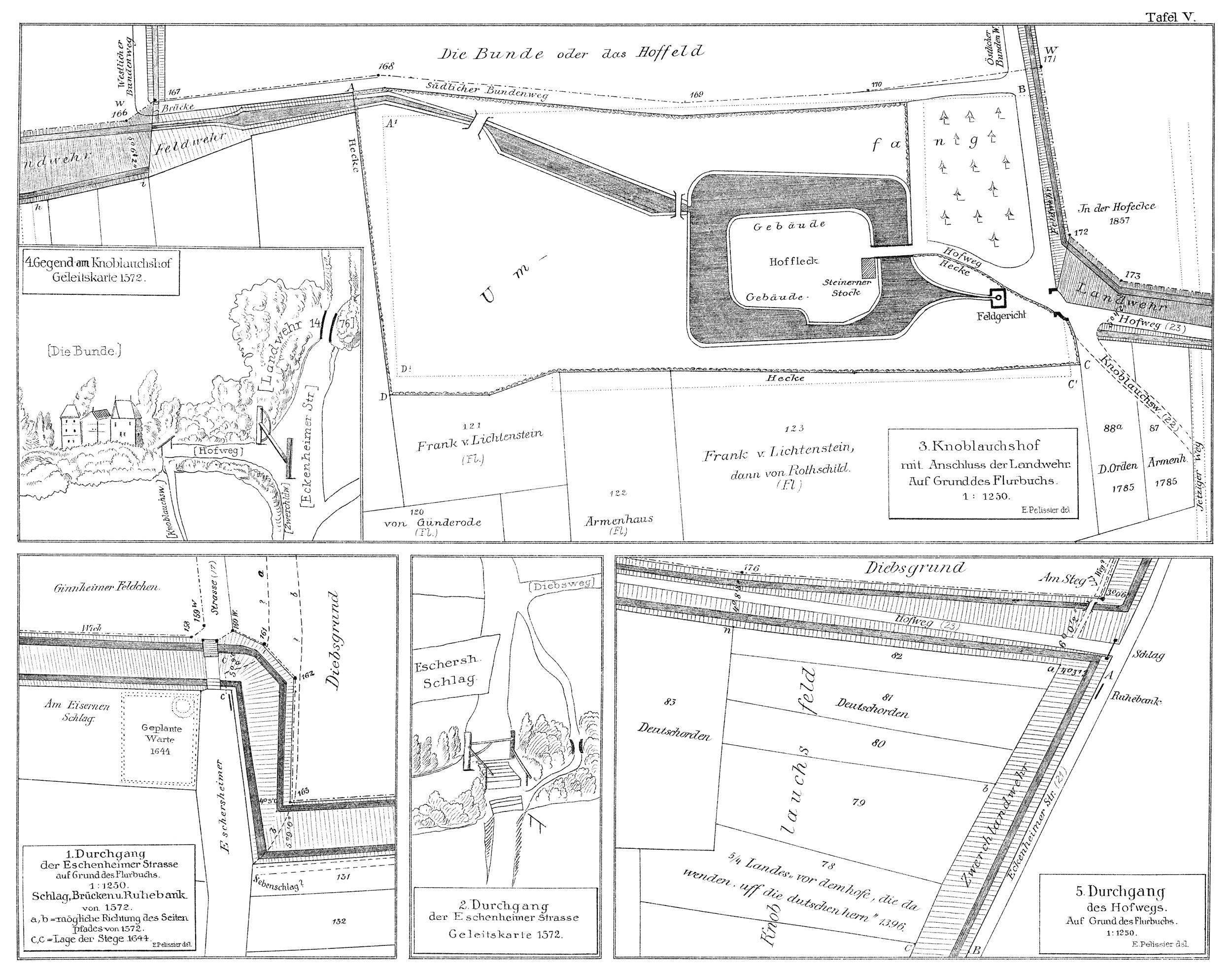 Militia of Frankfurt on the Main: Detail map showing the Kuehhornshof and surroundings